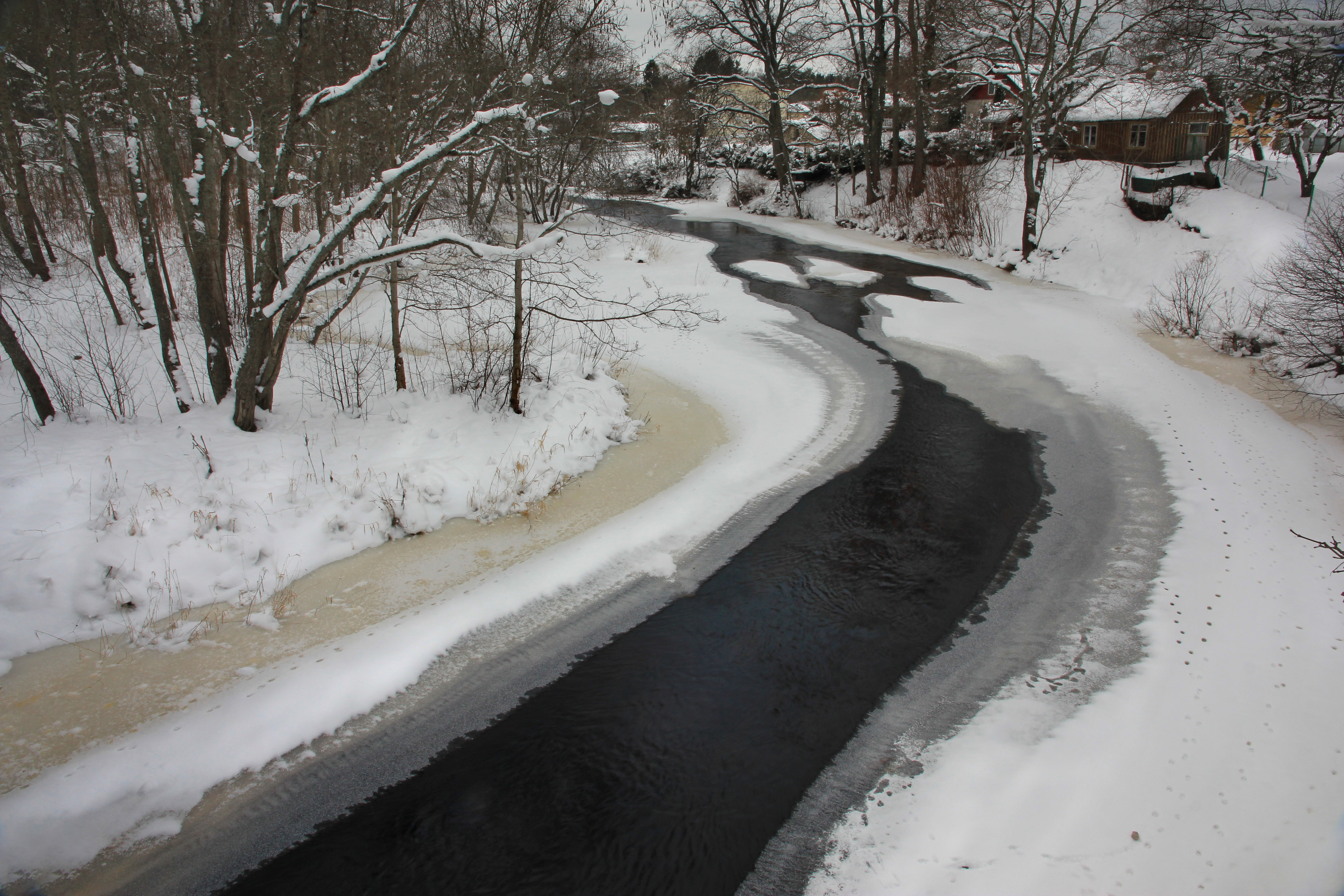 White River (Valgejõgi ) flowing through the city of Loksa